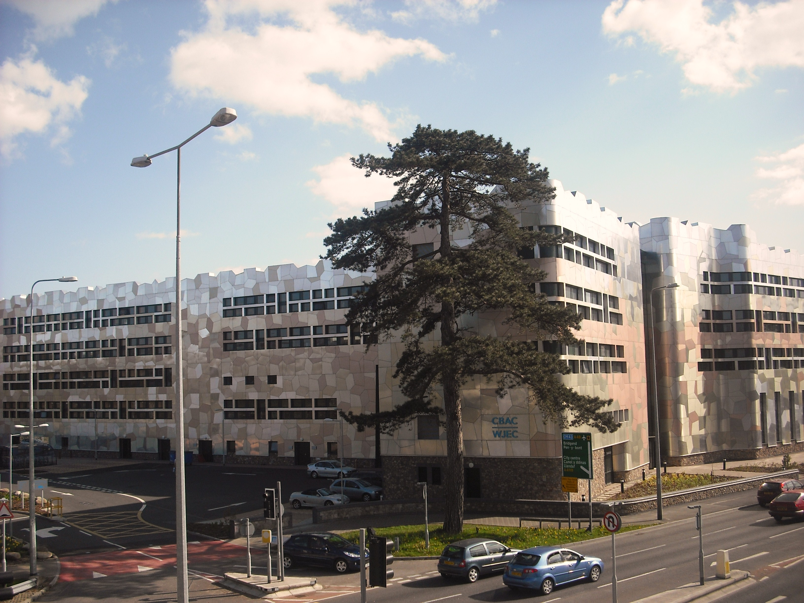 The headquarters of the WJEC in Llandaff, Cardiff